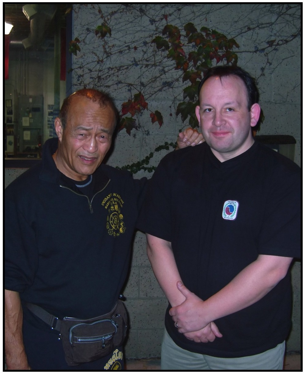 Barry Cook and Dan Inosanto